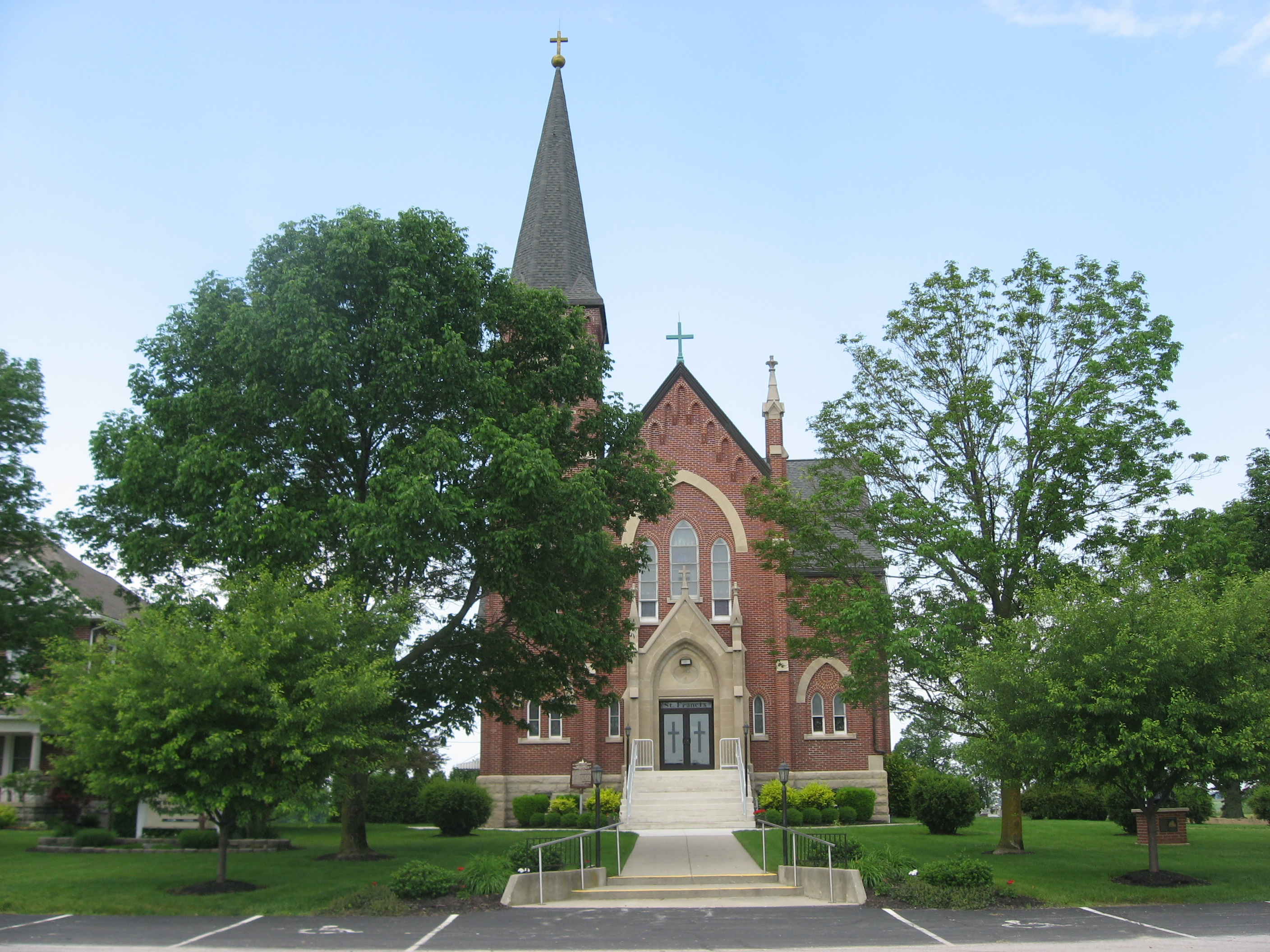 Front of St. Francis' Catholic Church, located at the intersection of Cranberry and Fort Recovery-Minster Roads in Cranberry Prairie, an unincorporated community in Granville Township, Mercer County, Ohio, United States. Built in 1906, the church and its rectory were listed together on the National Register of Historic Places as a part of the Cross-Tipped Churches of Ohio Thematic Resources.